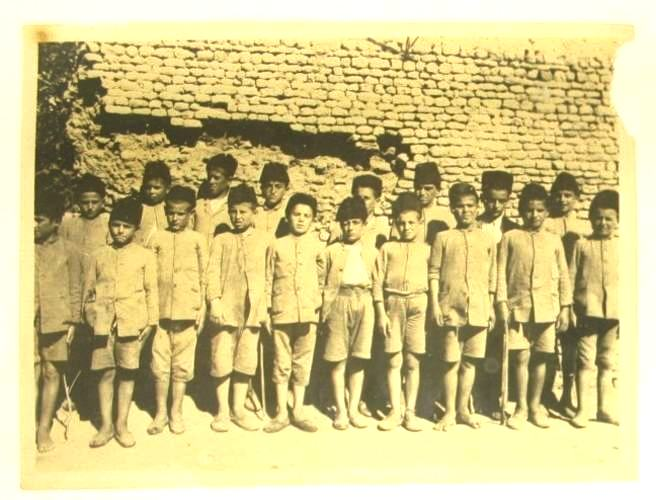 Photograph of a group of refugee boys in Baghdad. Boys are lined up in two rows, and wearing long shorts with a buttoned jacket uniform. A brick wall is in the background.